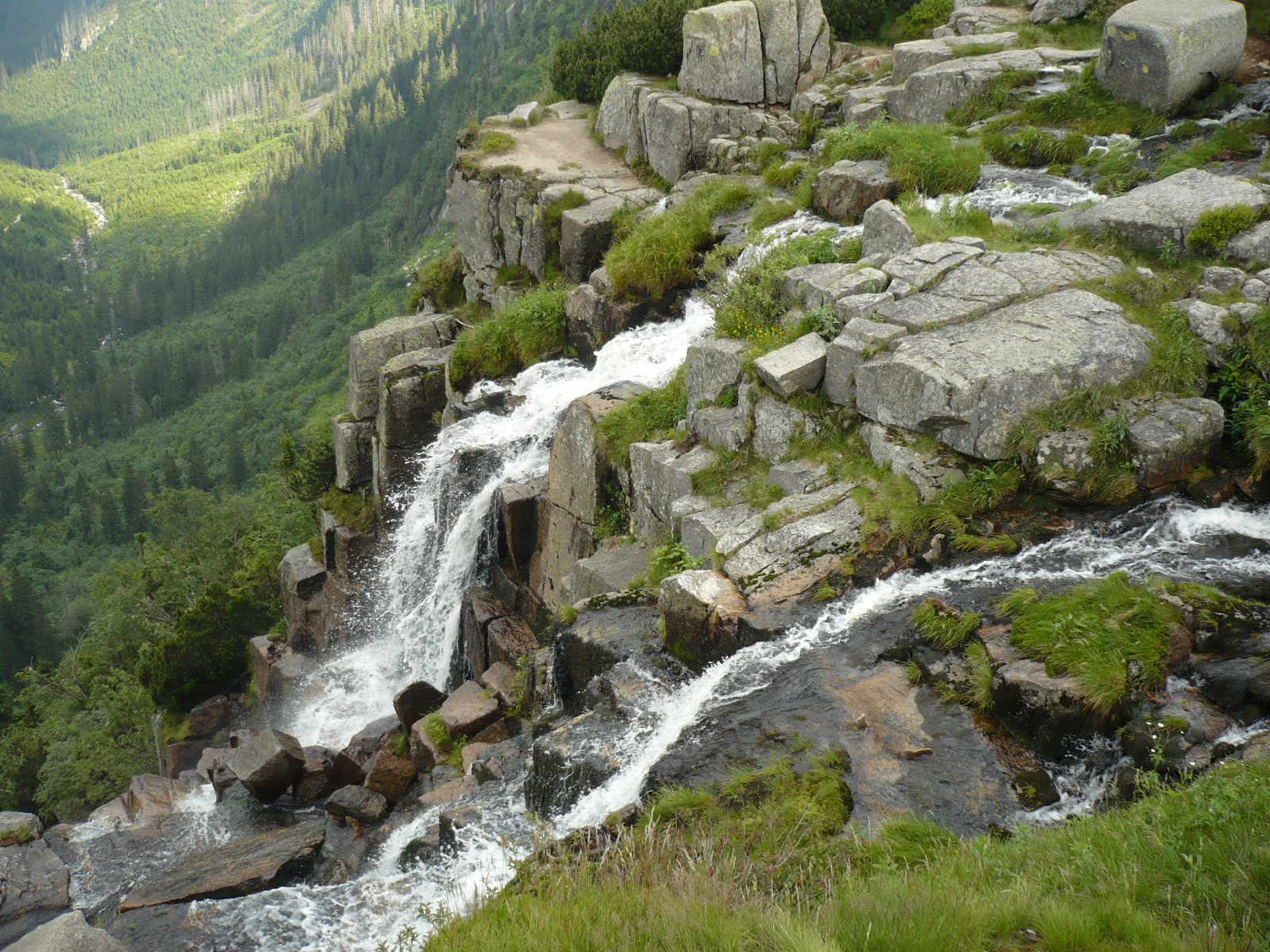 Watterfall Pancavsky in Krkonose